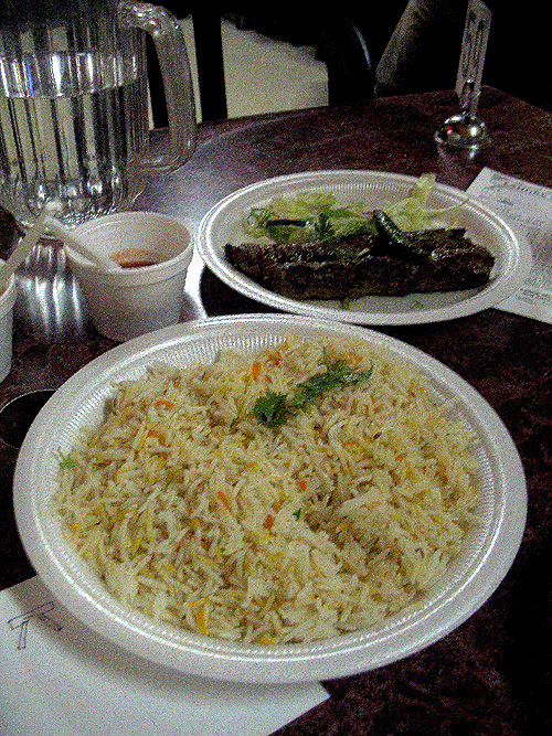 Another view of the rice and kabab, with some Photoshop trickery. Yes, that's a doodle in the foreground. February 27, 2009